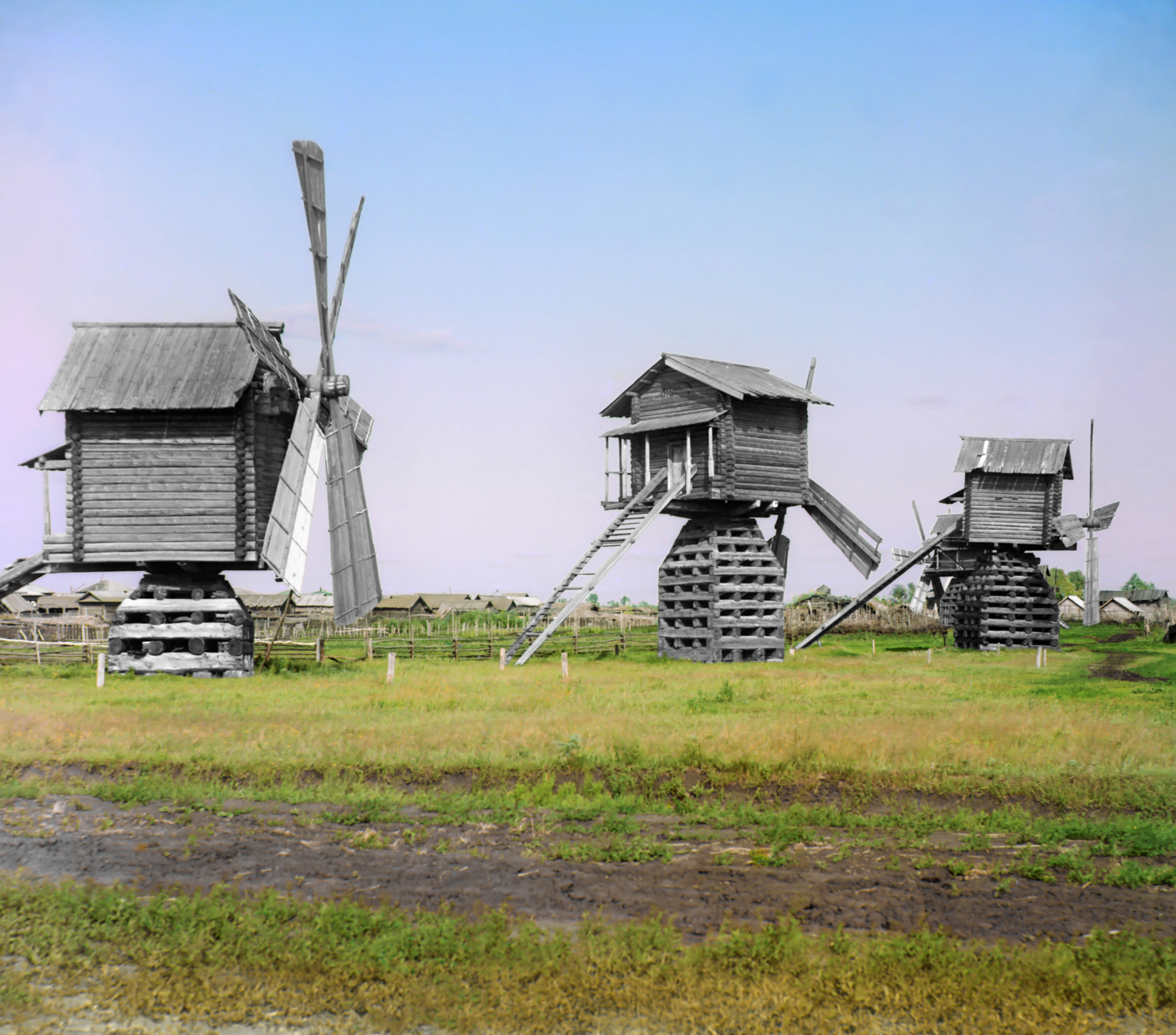 Windmills (in Yalutorovsk district of Tobolsk Province).